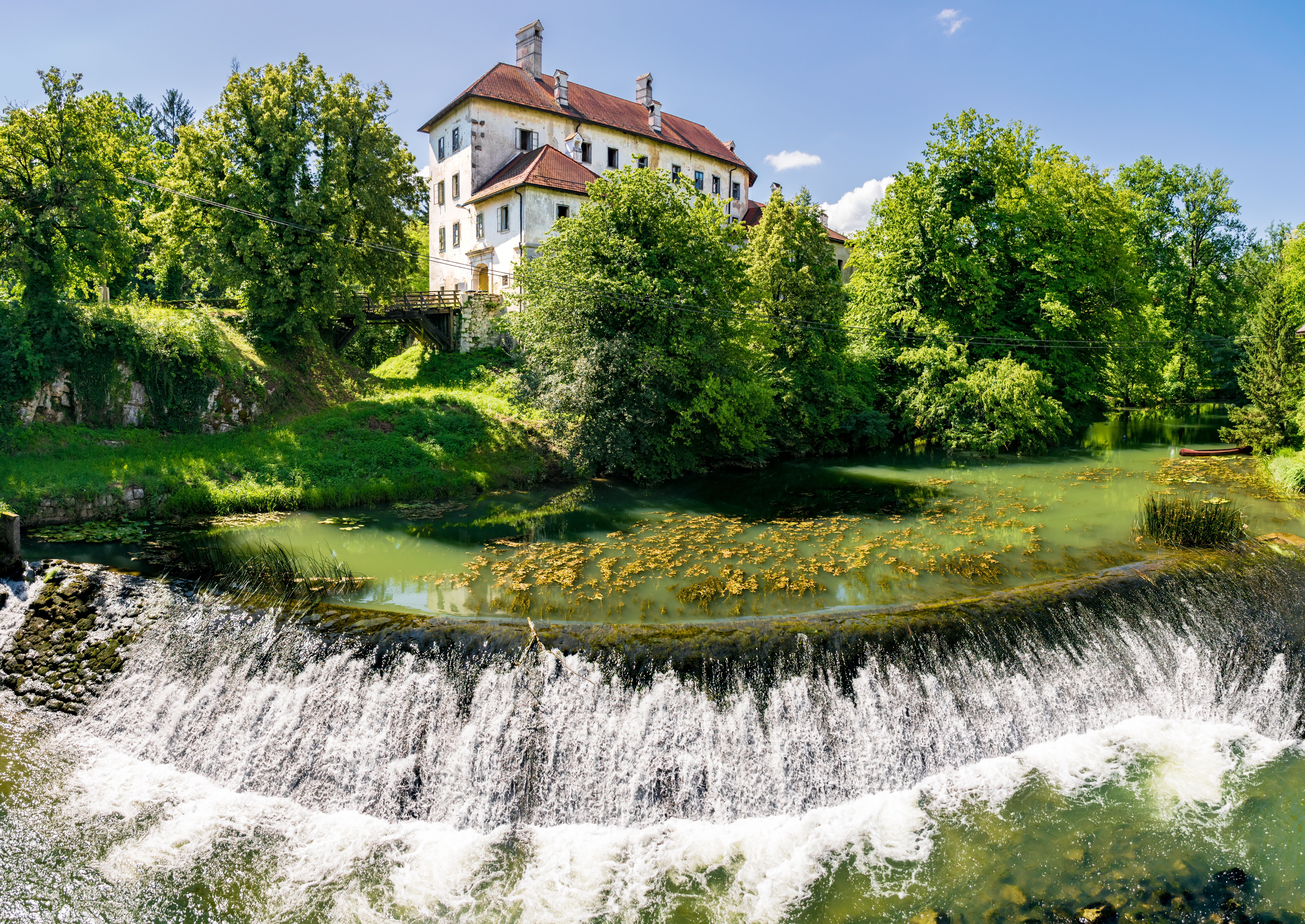 Castle Gradac is located in Gradac, Bela krajina in southeastern Slovenia. It was first mentioned in 1228.